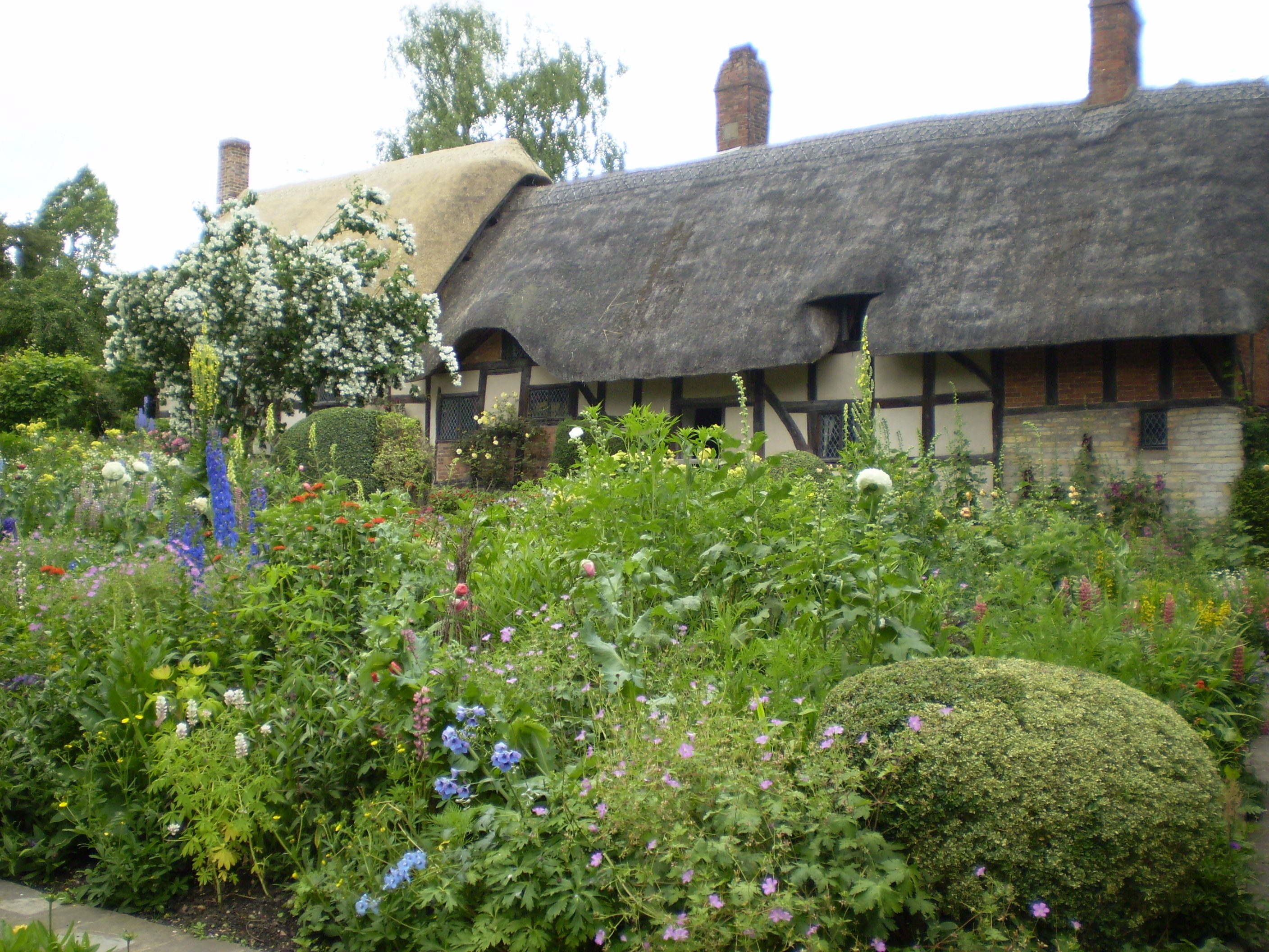 Gardens at Anne Hathaway's house, Stratford-upon-Avon, England. Taken in 2007.